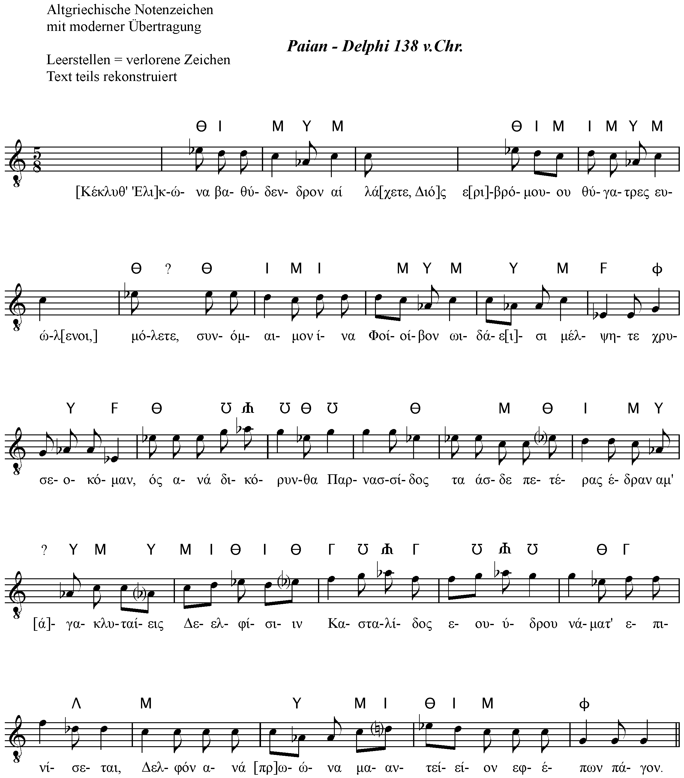 classical old greece paian